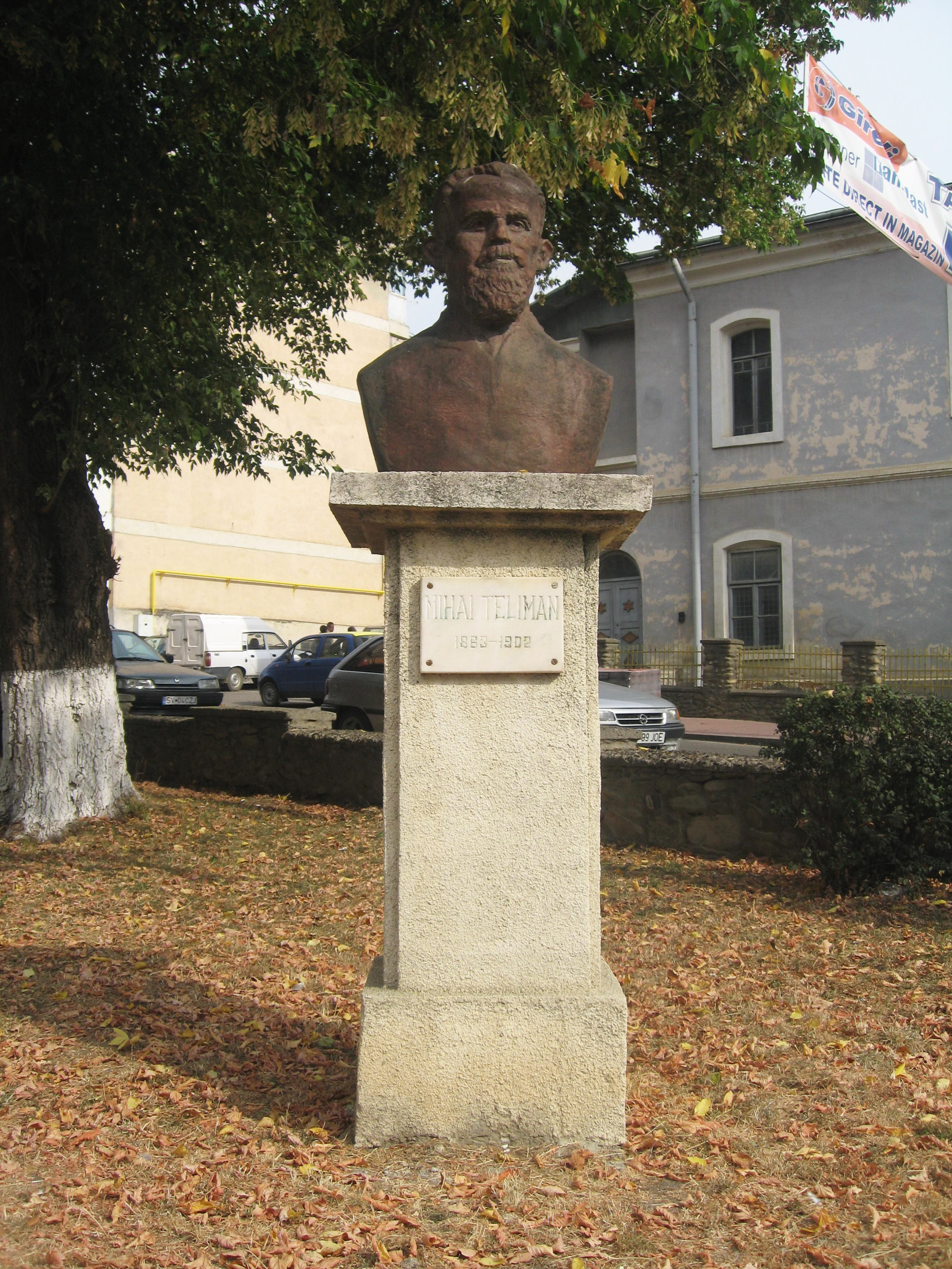 Bustul lui Mihai Teliman din Siret